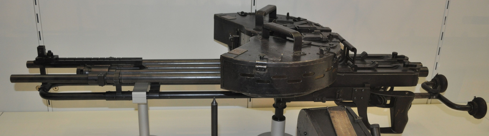 7.7 mm Type 89 Dual flexible machine gun on display at the Steven F. Udvar-Hazy Center